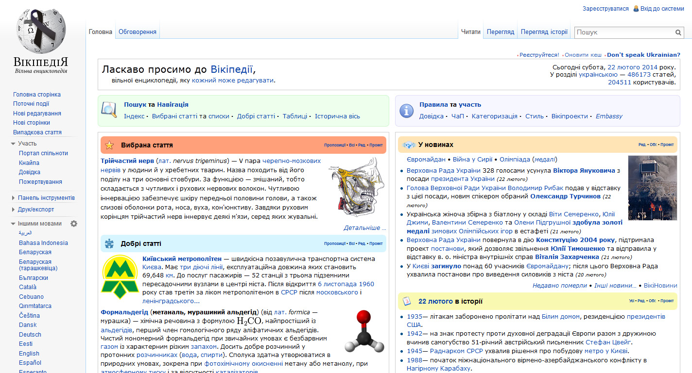 Main page of Ukrainian Wikipedia on 23 february 2014, with a black ribbon on Wikipedia logo as a sign of mourning for the victims of Euromaidan.